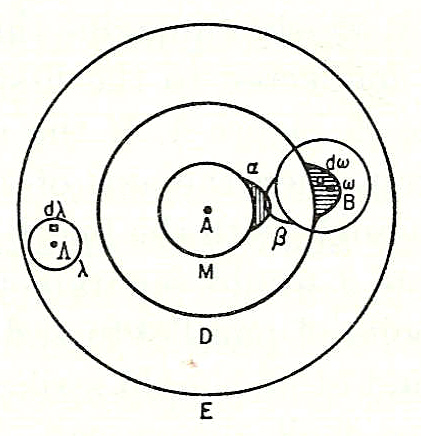 Source Ludwig Boltzmann's 1896 Lectures on Gas Theory